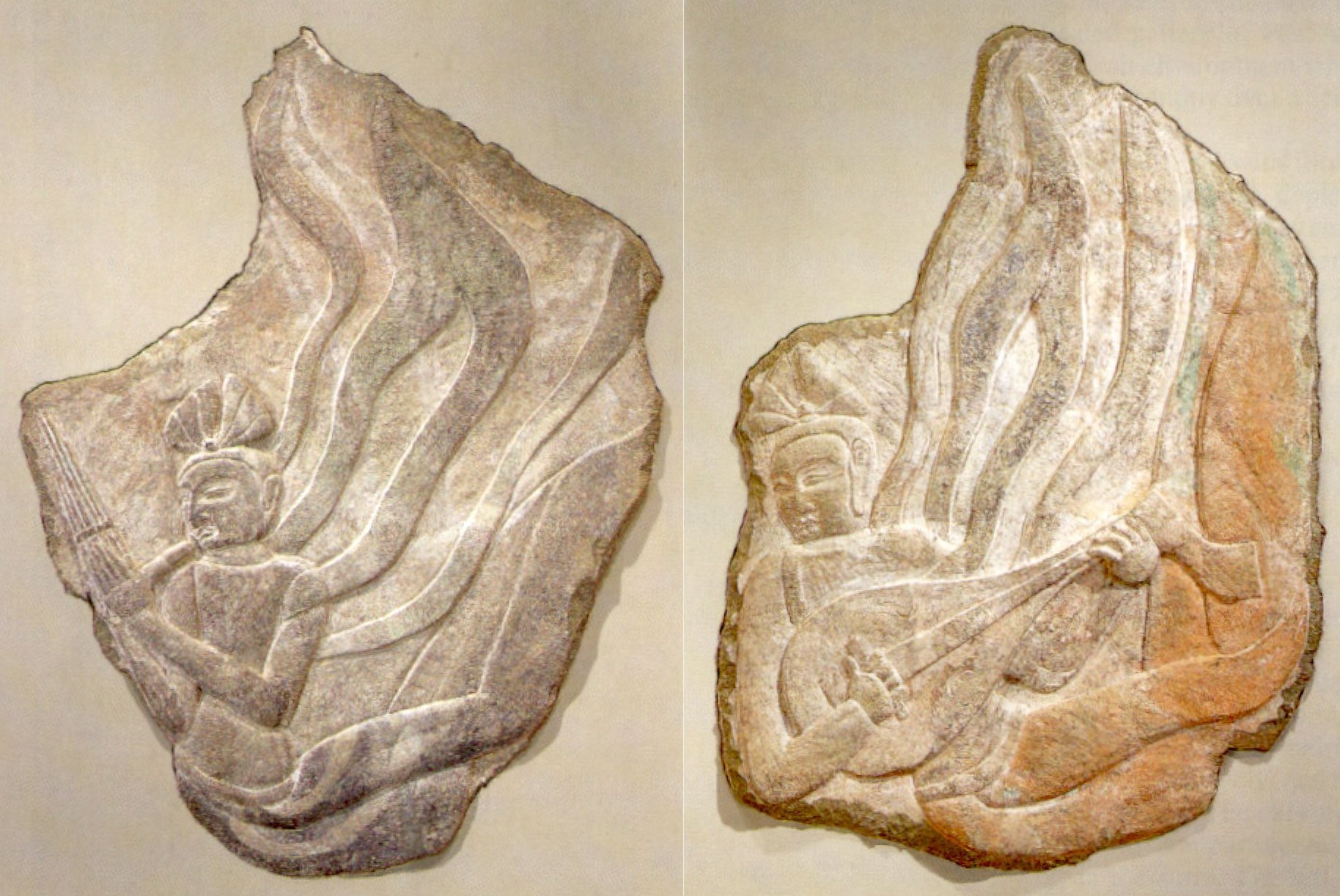 Apsaras playing a sheng (left) and a pipa (right), Chinese, Northern Qi Period (550-577), limestone with traces of pigment, Honolulu Museum of Art accession 3467